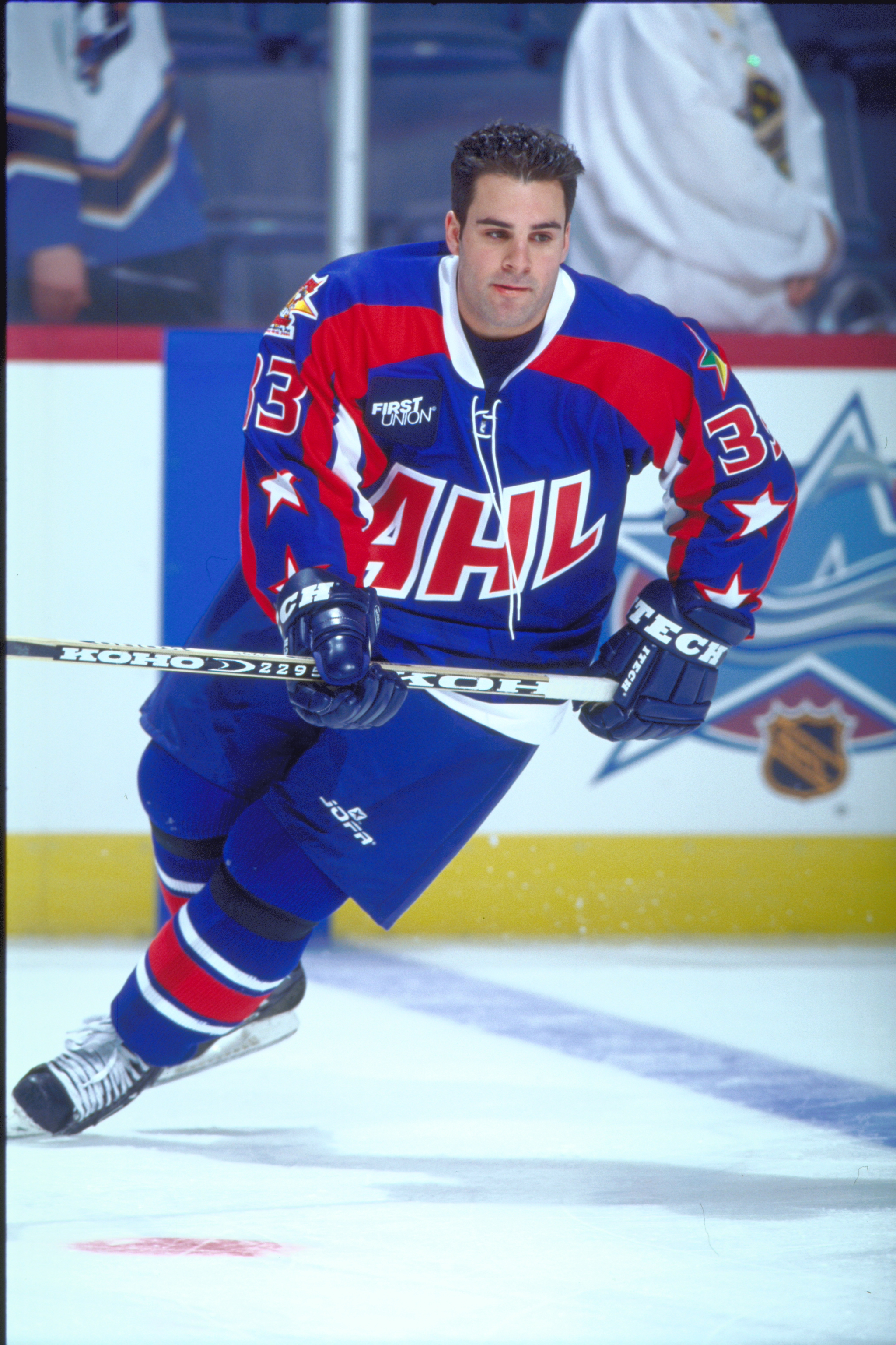 hhof0375